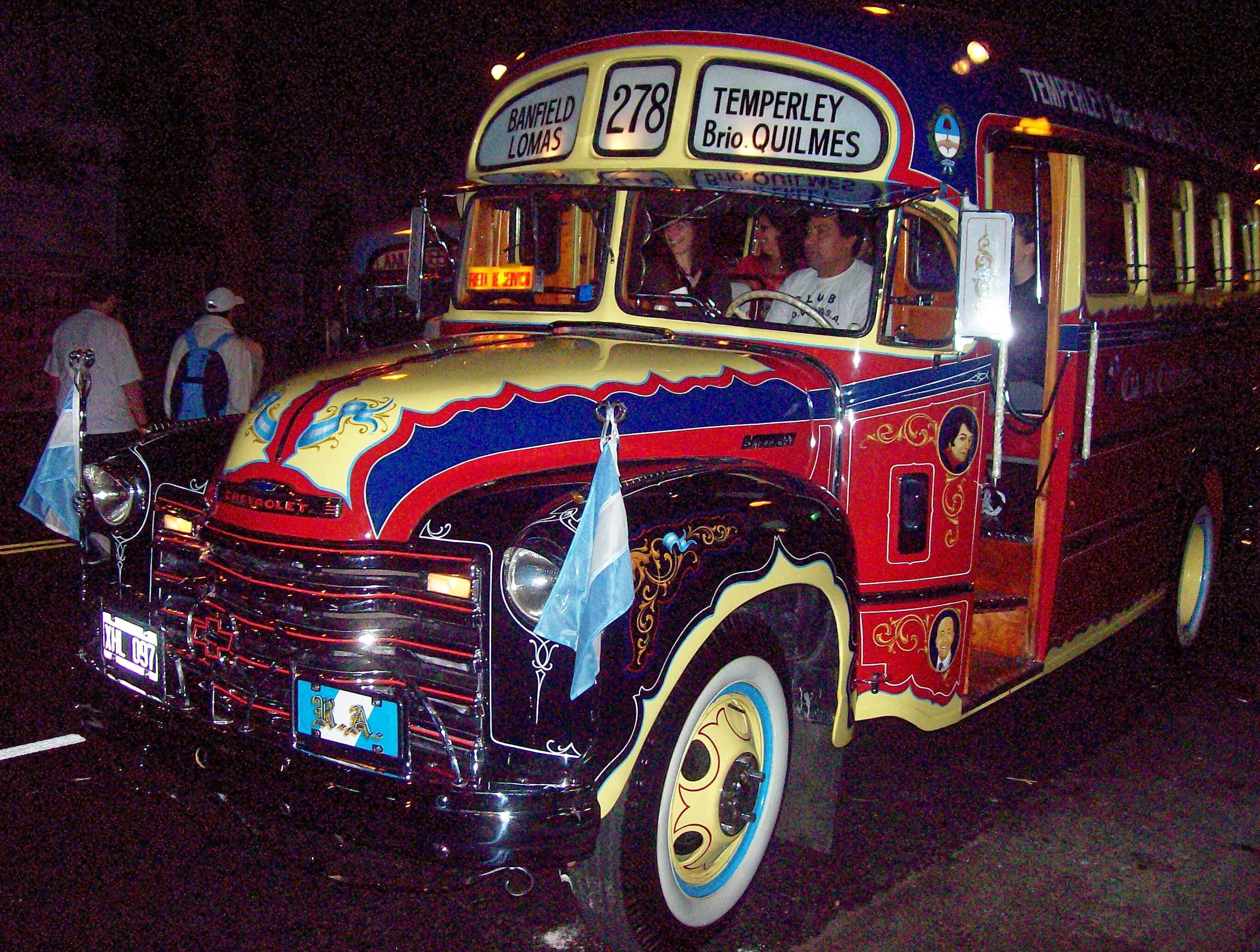 Chevrolet historical bus (reg. XHL 097) in Buenos Aires, Argentina. Built 1947. Colectivo, line 278, Cia. Omnibus "25 de Mayo" S.A. {CO.VE.MA. S.A.} operator.